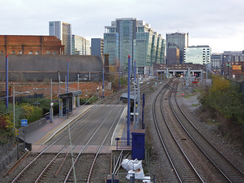 St Paul's tram stop The bulk of Snow Hill is seen beyond.